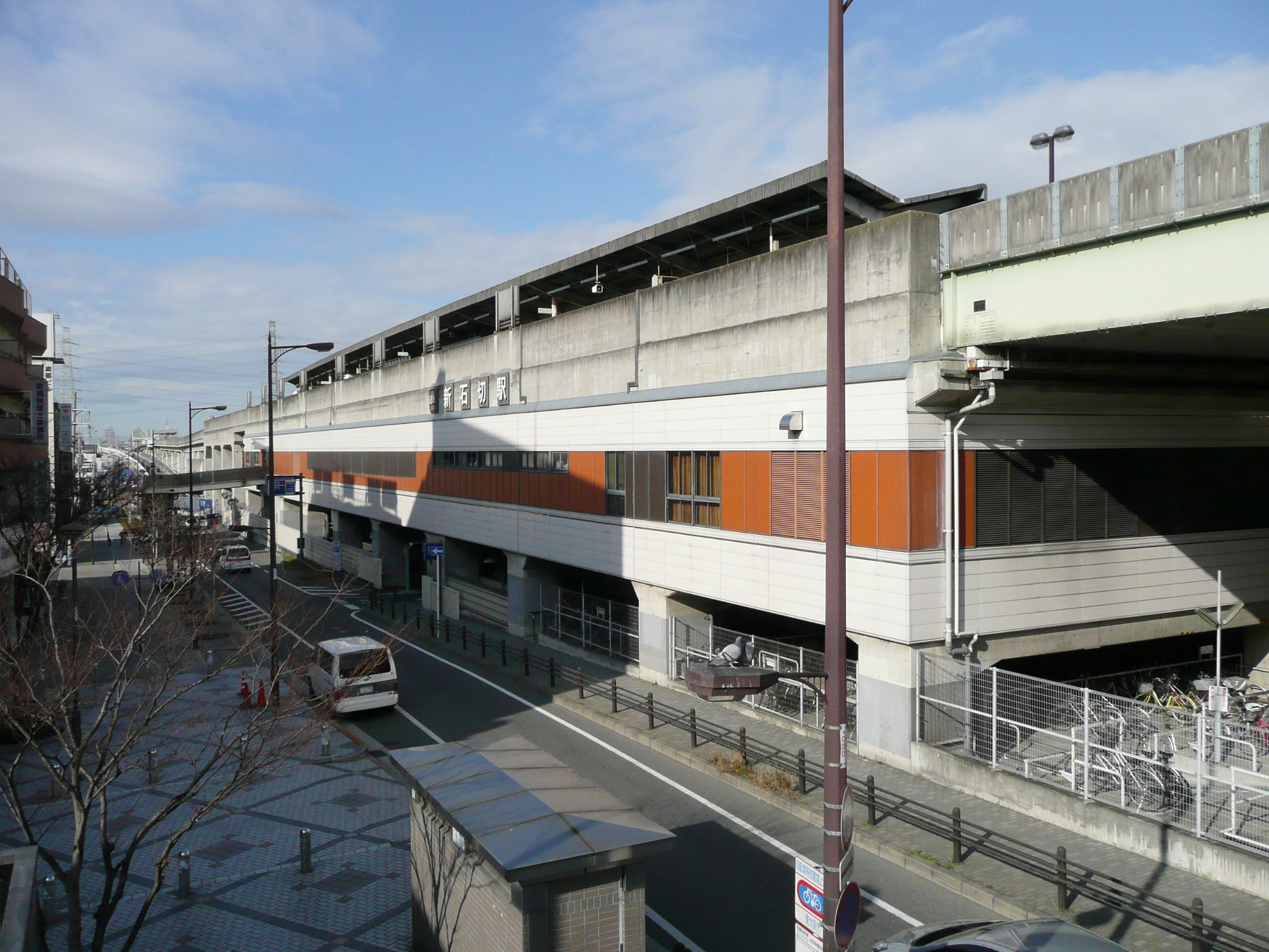 Kinki Nippon Railway,Keihanna Line,Shin-Ishikiri Station.